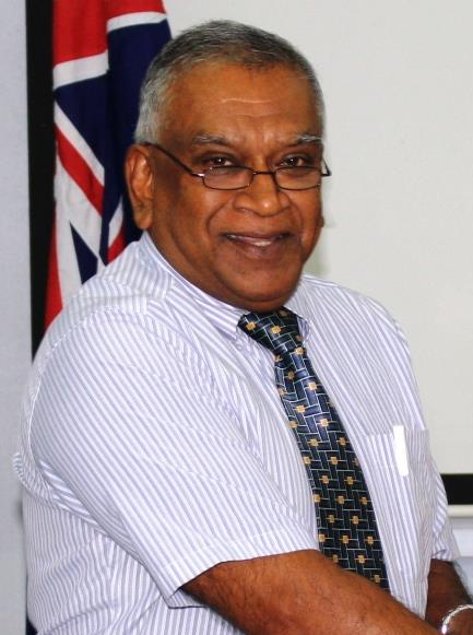 Neil Sharma and Glen Miles